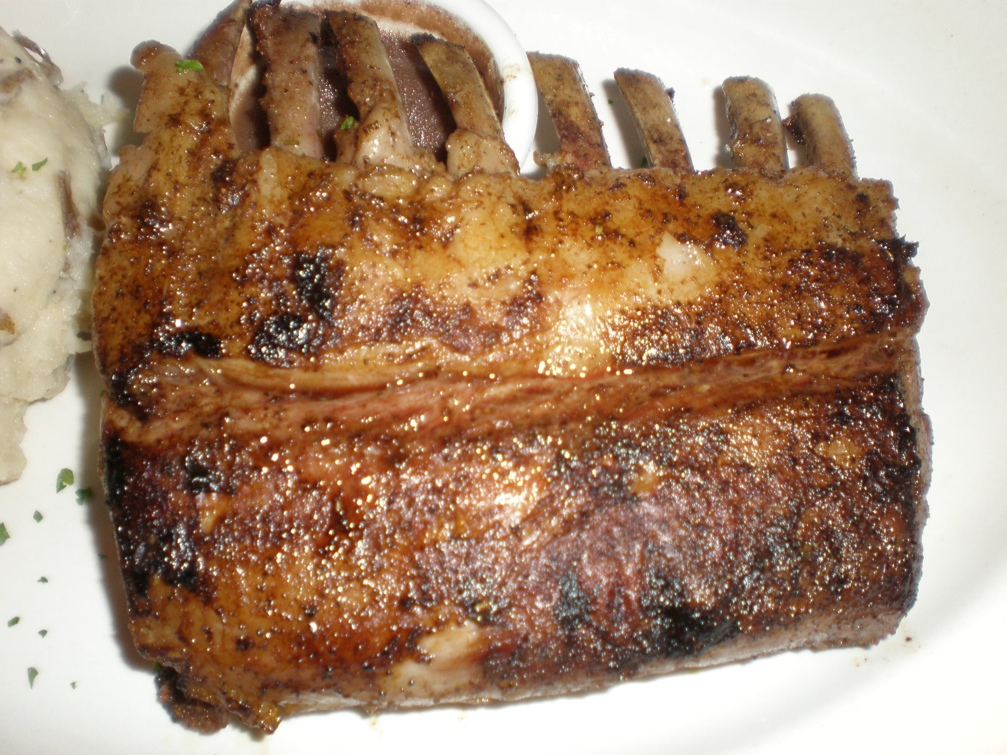 A rack of lamb from Outback Steakhouse.